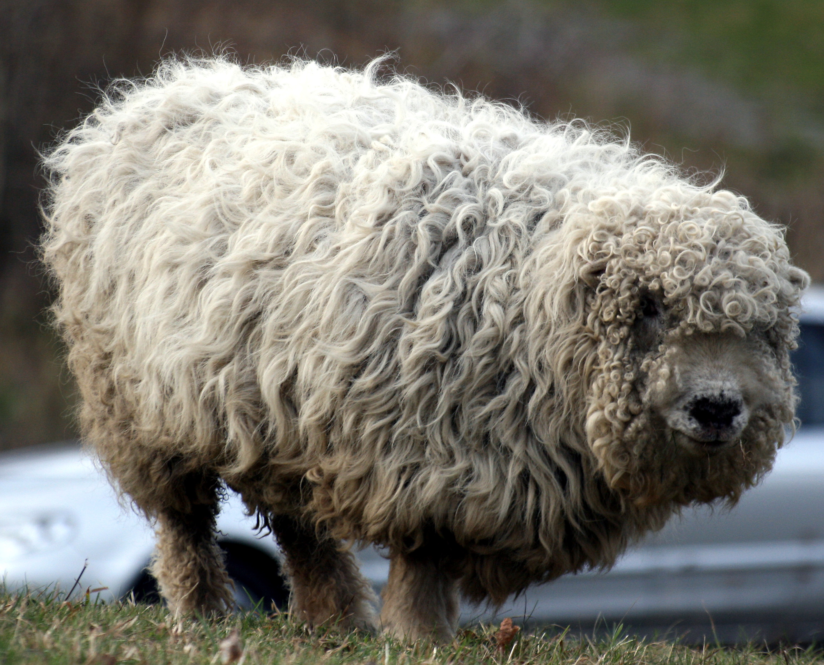 Sheep - London Wetland Centre - London, England - Sunday 3rd February 2008.